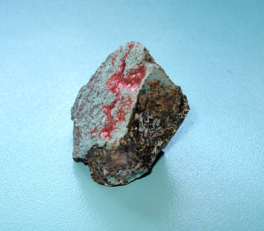 Chalcotrichite, a variety of cuprite. This piece was extracted from Ray, Arizona (USA).